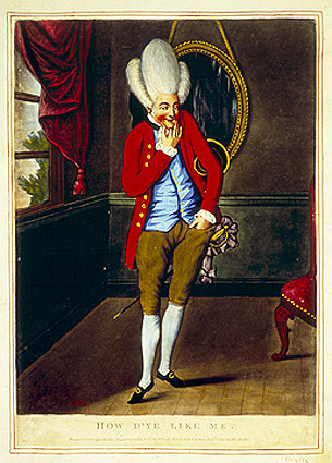 Coloured engraving of a Macaroni or Molly, an 18th Century term for effeminate homosexual.